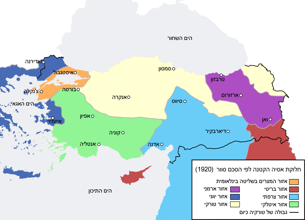 translation